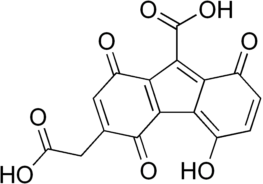 chemical structure of hipposudoric acid